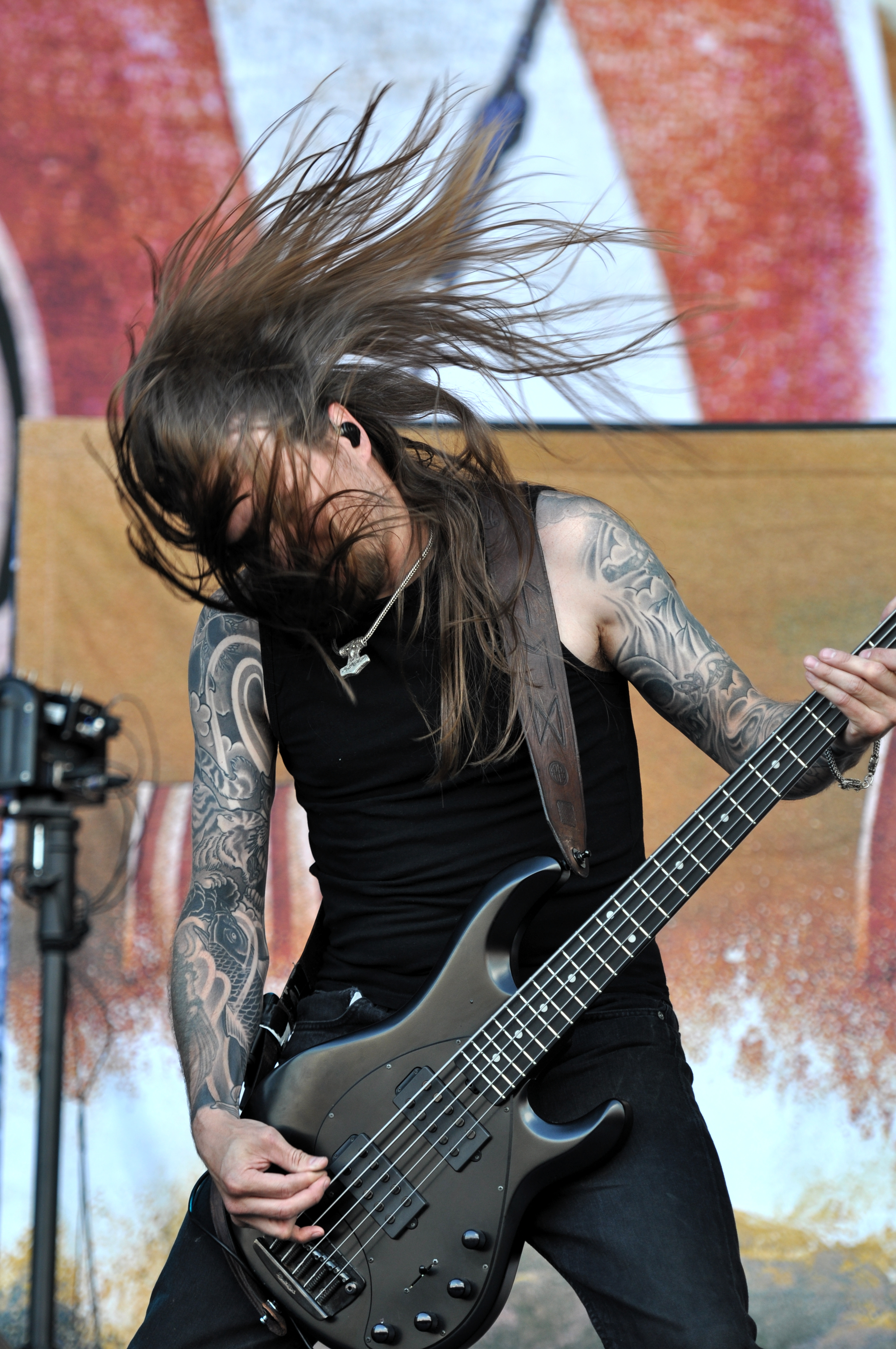 Amon Amarth at Rock am Ring 2013